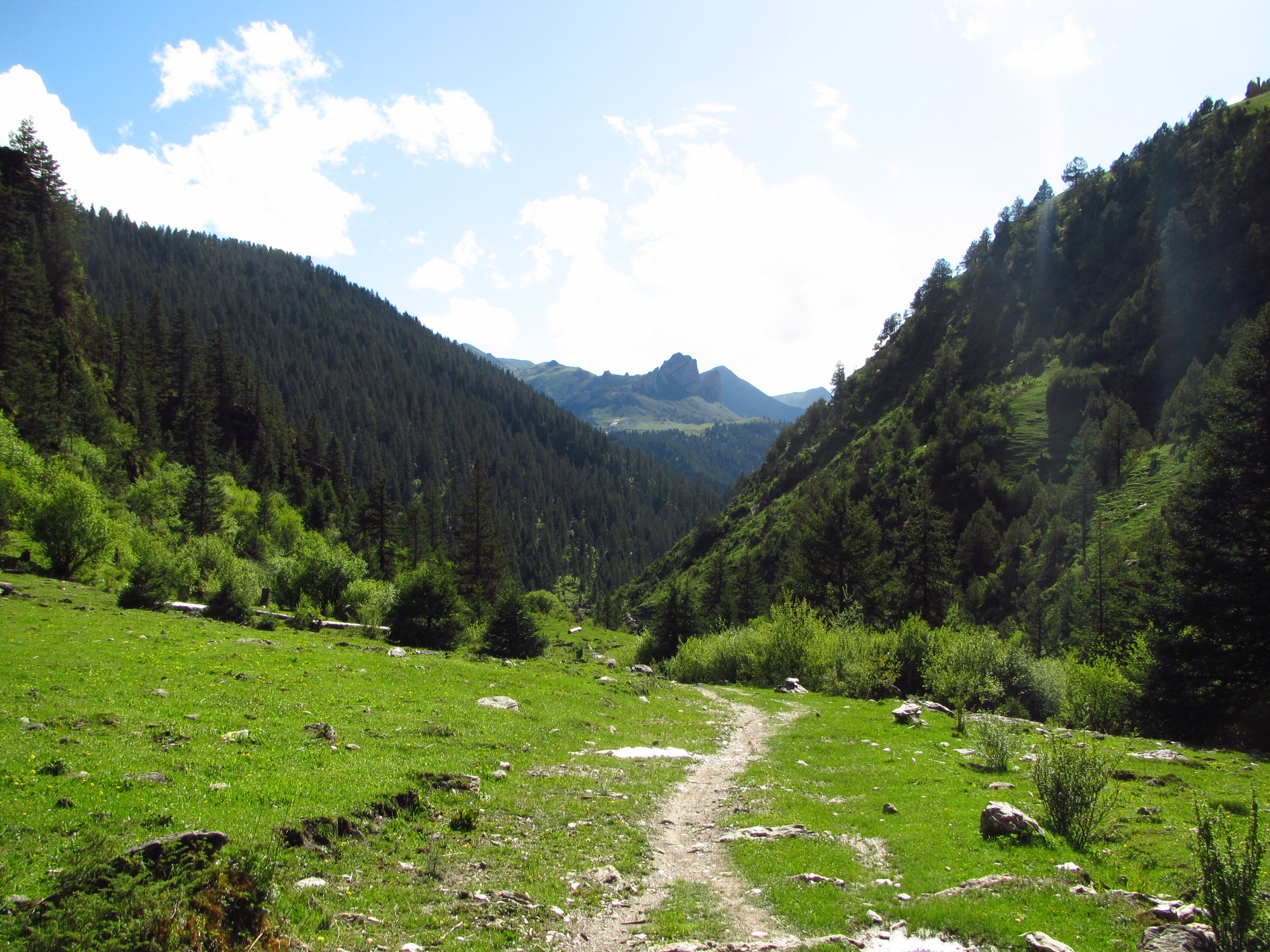 View of coniferous forest in Dêgê County